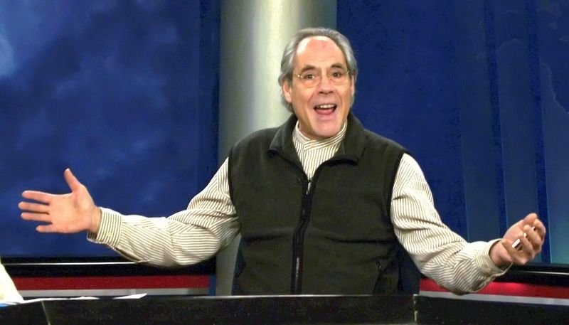 Actor. comic and singer Robert Klein Please acknowledge "Phil Konstantin" as the creator of this photograph.